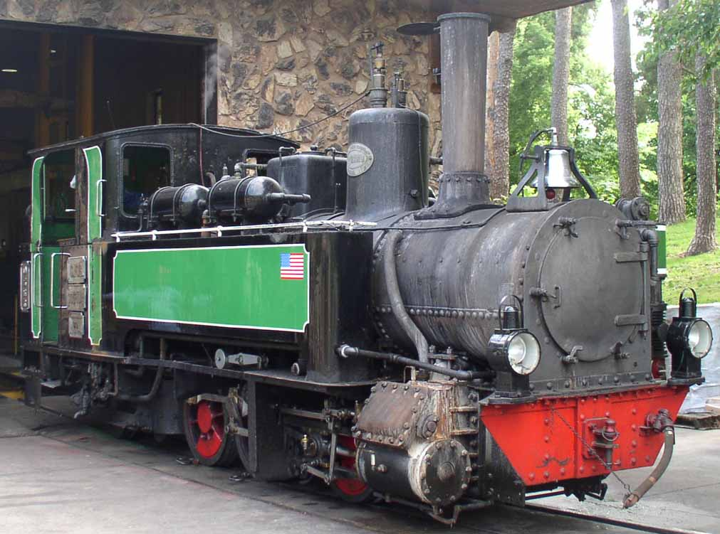 Steam Locomotive "Riva" of the Omaha Zoo Railroad (ex CFR 395-104 ex Mori-Arco-Riva, Italy) Photo by Samuel Smith-Shull, taken summer 2004. Uploaded by photographer.